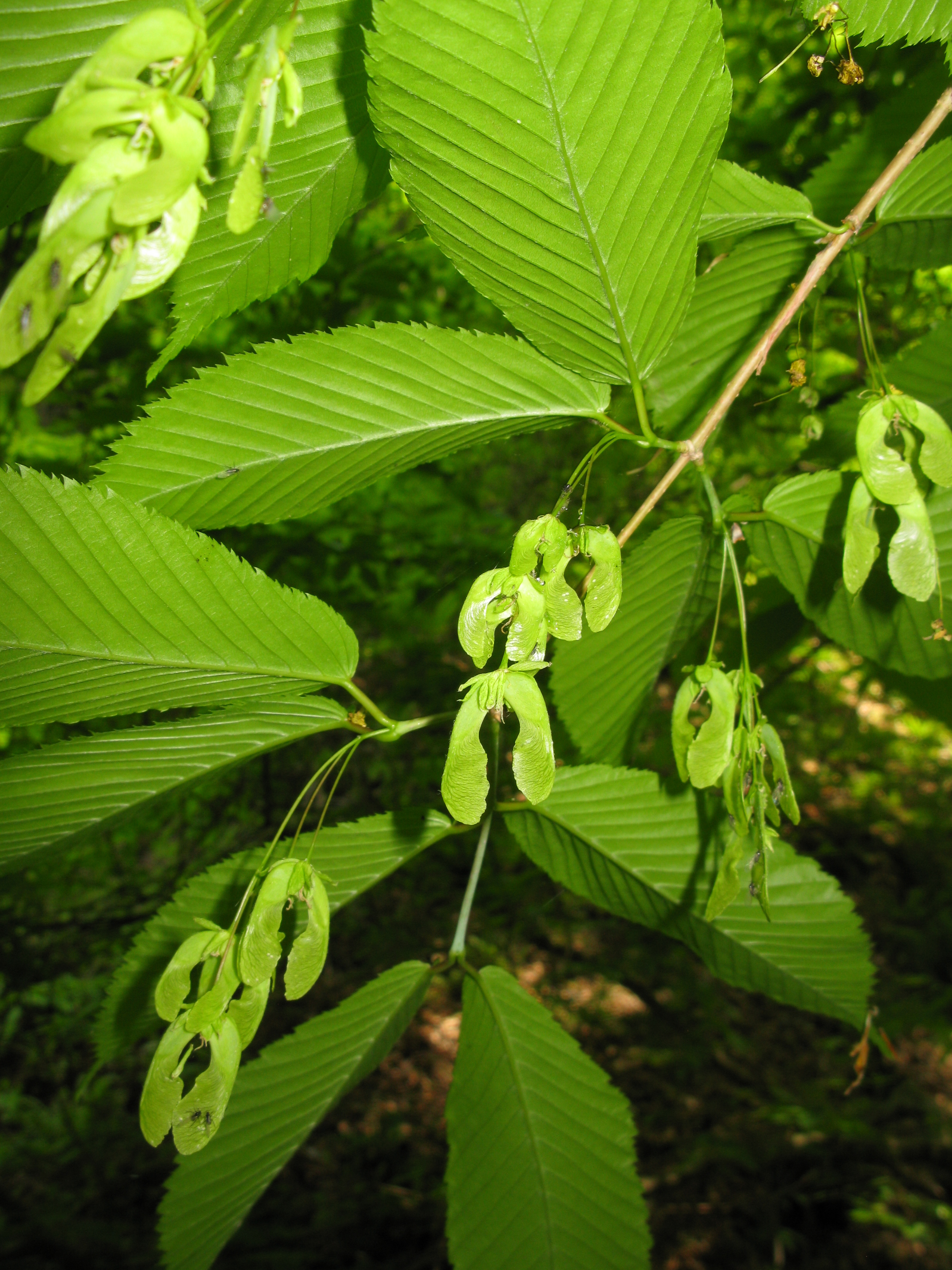 Acer carpinifolium, Aizu area, Fukushima pref., Japan